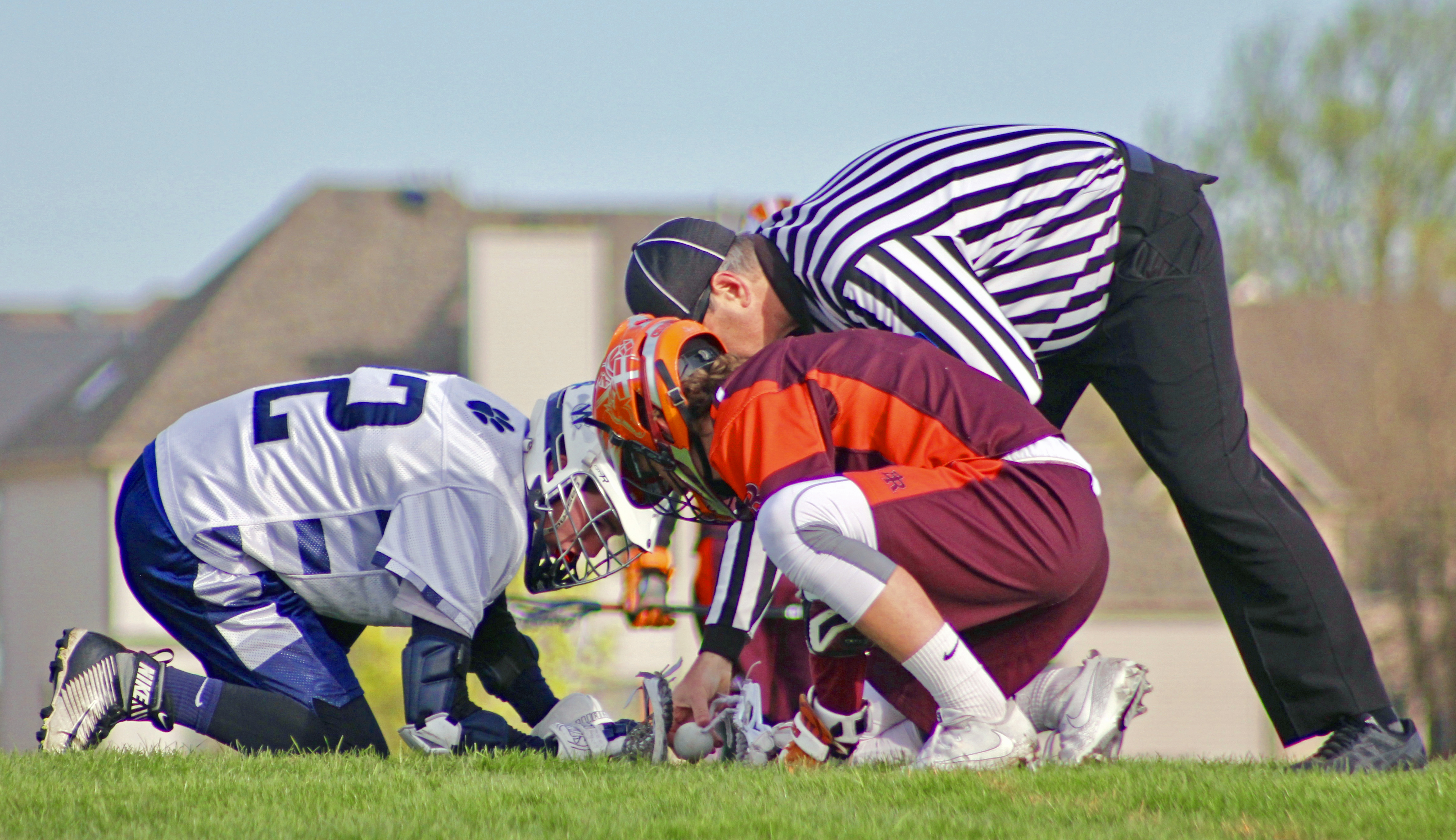 Two midfielders in position for a lacrosse face-off, with the referee placing the ball between their sticks.